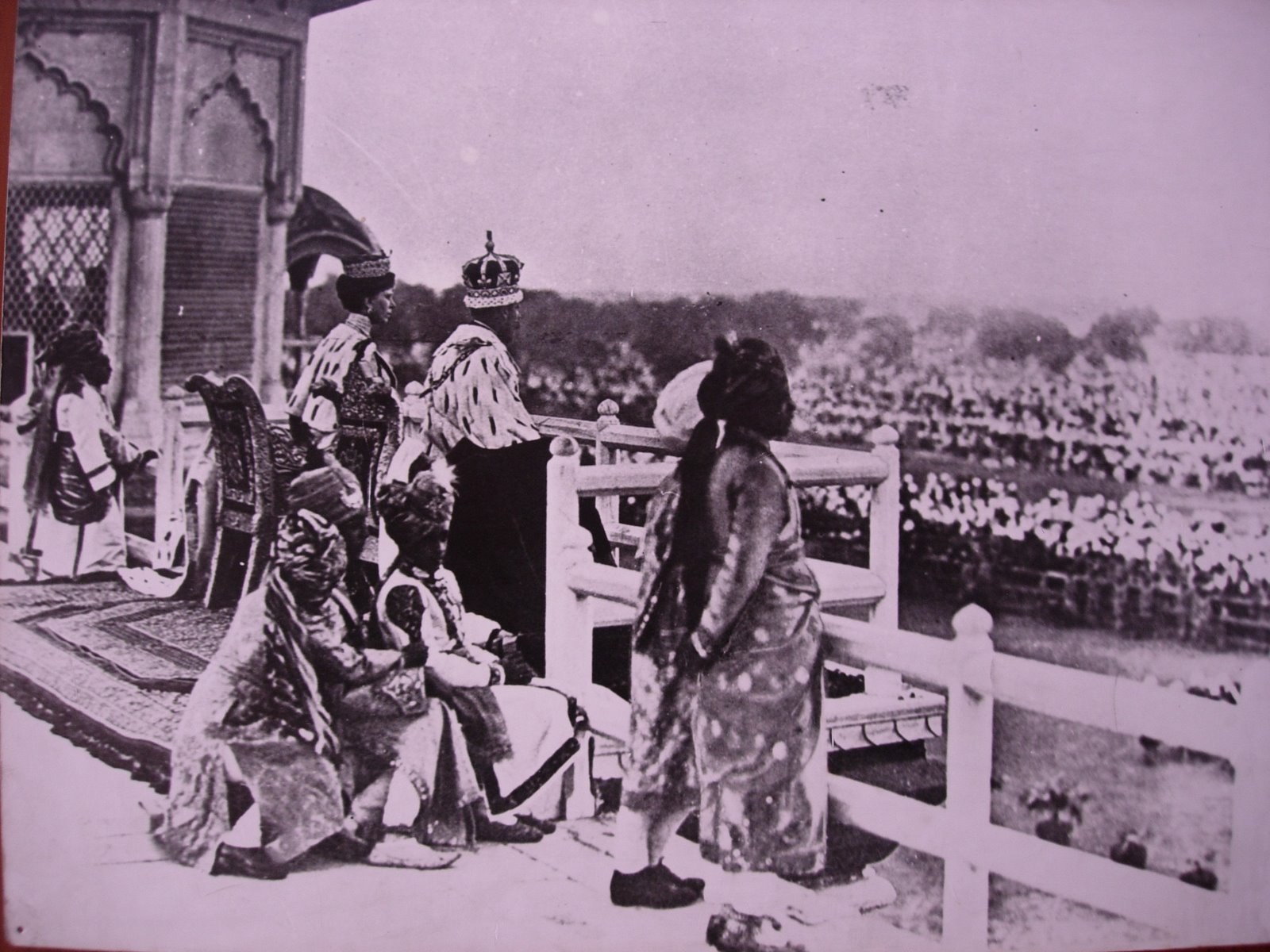 Scene from the Delhi Durbar 1911.